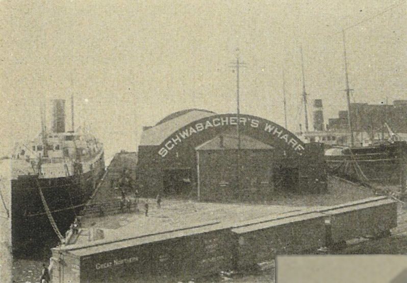 "Schwabacher's Wharf" one of a pair of photos collectively captioned "Schwabacher Bros., the Big Grocers," from brochure Seattle and the Orient (1900). The wharf is long gone. Because the pictures overlap weirdly in the original layout of this page, I've blurred the area where another picture is overlayed on this one.